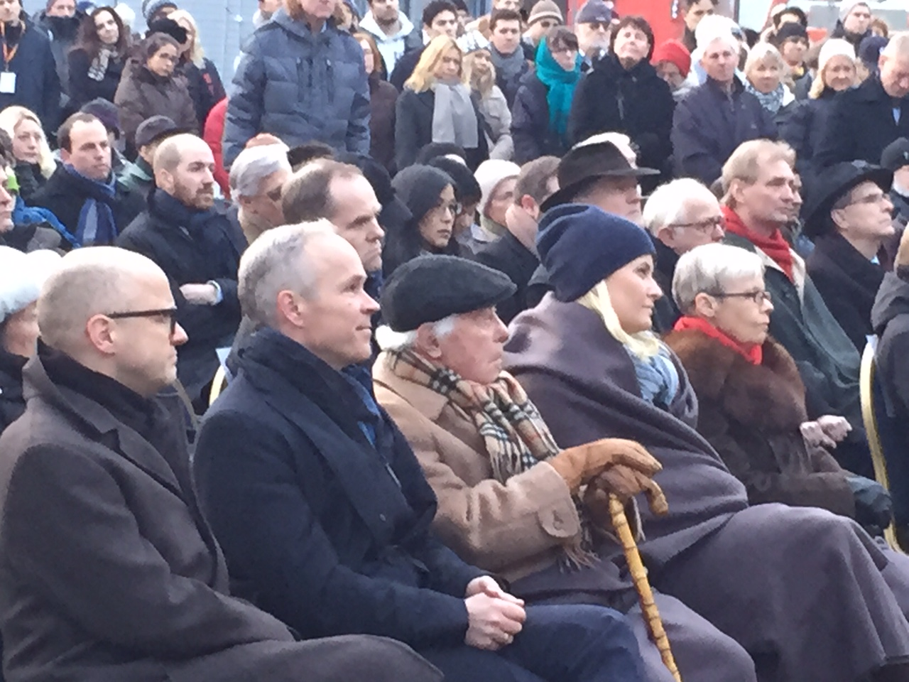 Samuel Steinmann was the last norwegian jew to survive Auschwitz